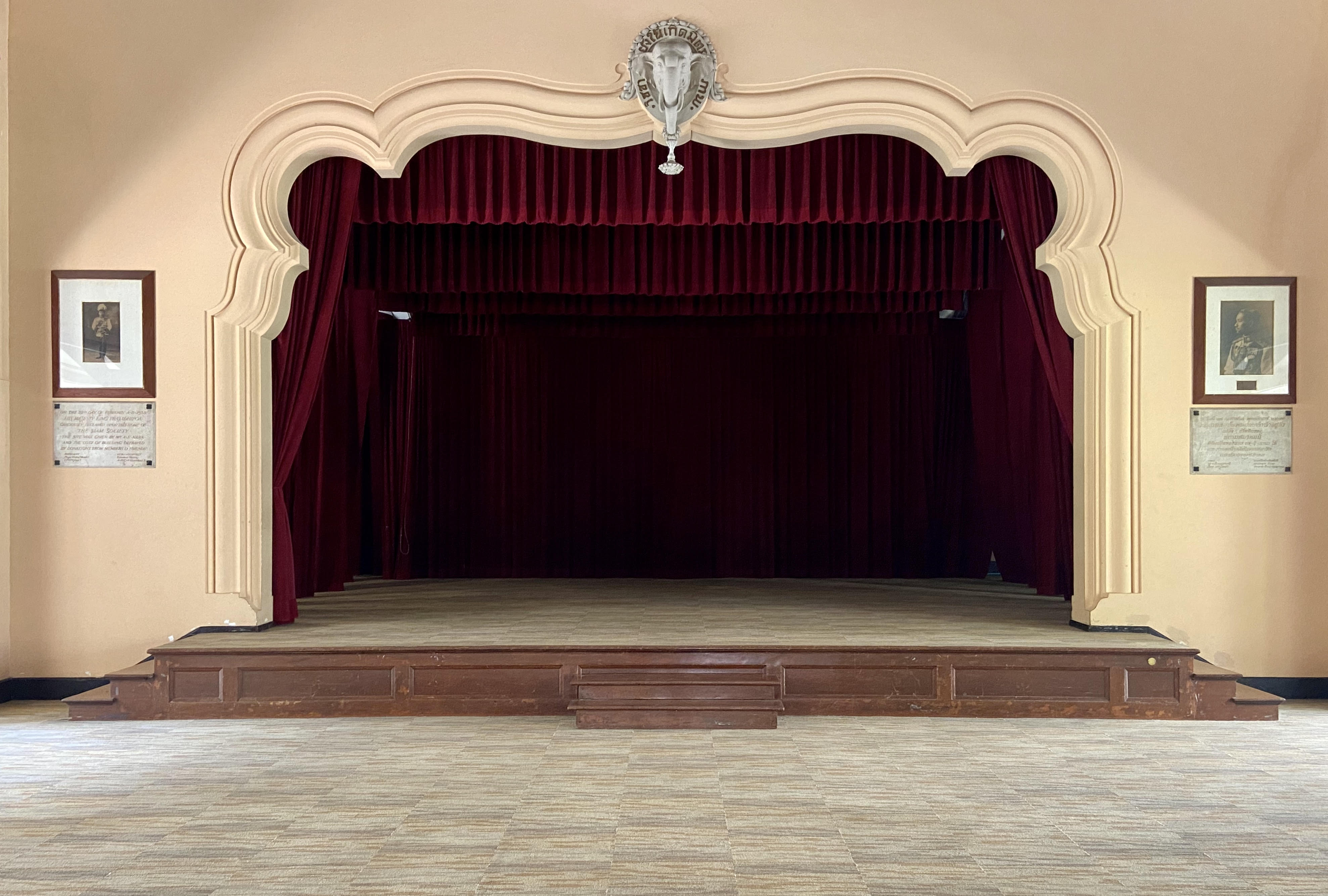 Stage in the Auitorium of the Siam Society in Bangkok